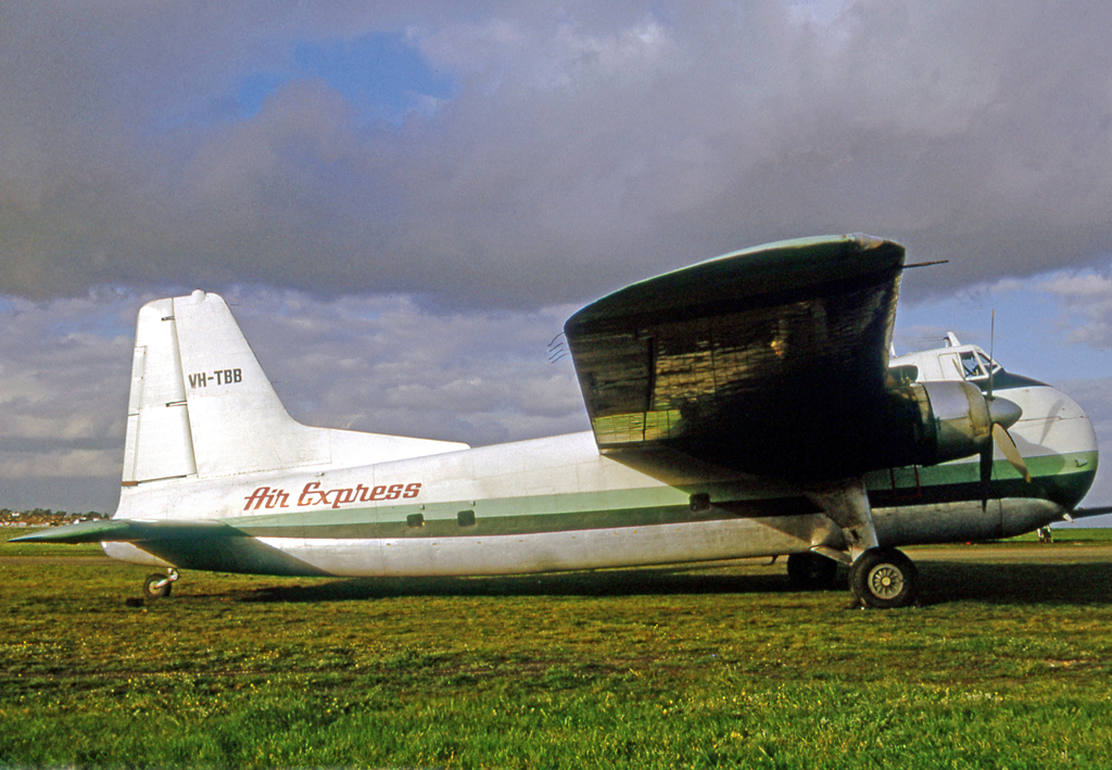 Bristol 170 31 VH-TBB of Air Express Australia at Melbourne Essendon in 1970